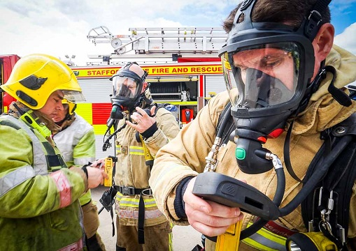 Firefighters wearing breathing apparatus